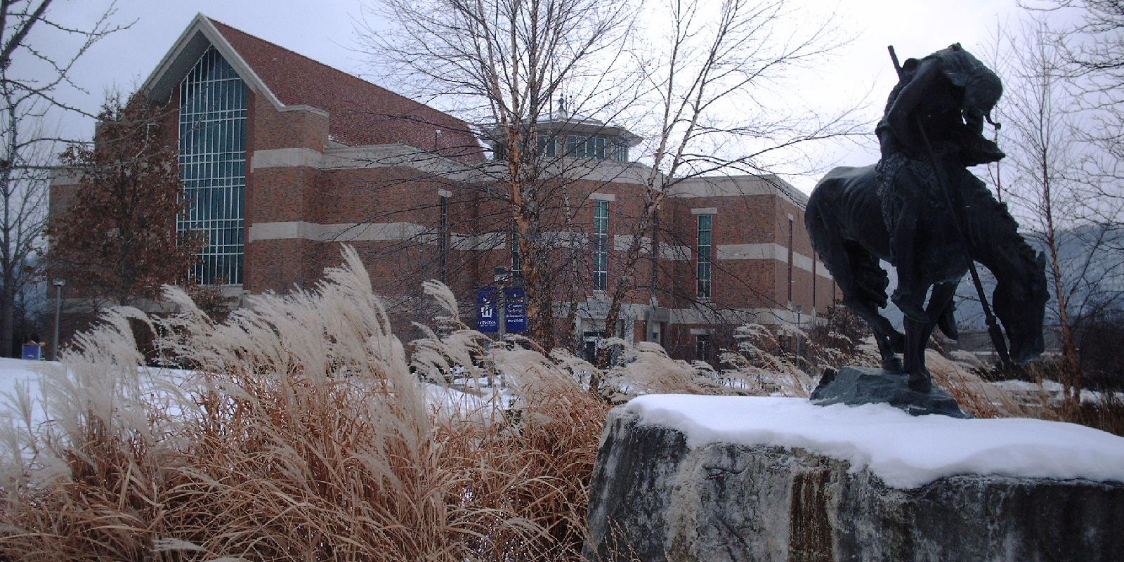 Photo I took January 2007 of the Winona State University Library in Winona, Minnesota. CC & GFDL.